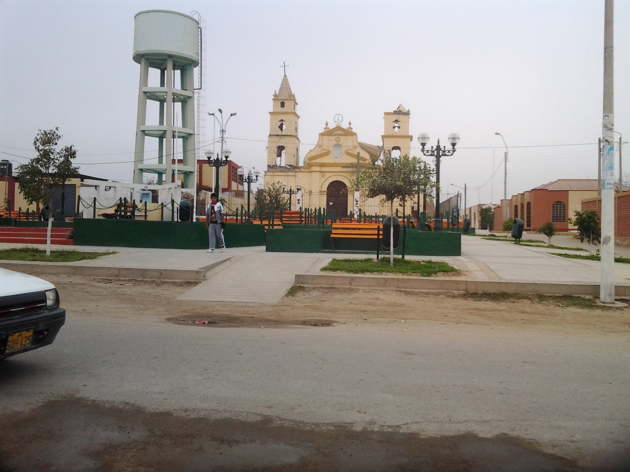 Village square with earthquake damaged church, Yglesia del Carmen, originally build in 1779. No one is allowed inside due to damage, but church is reluctant to demolish due to its history.